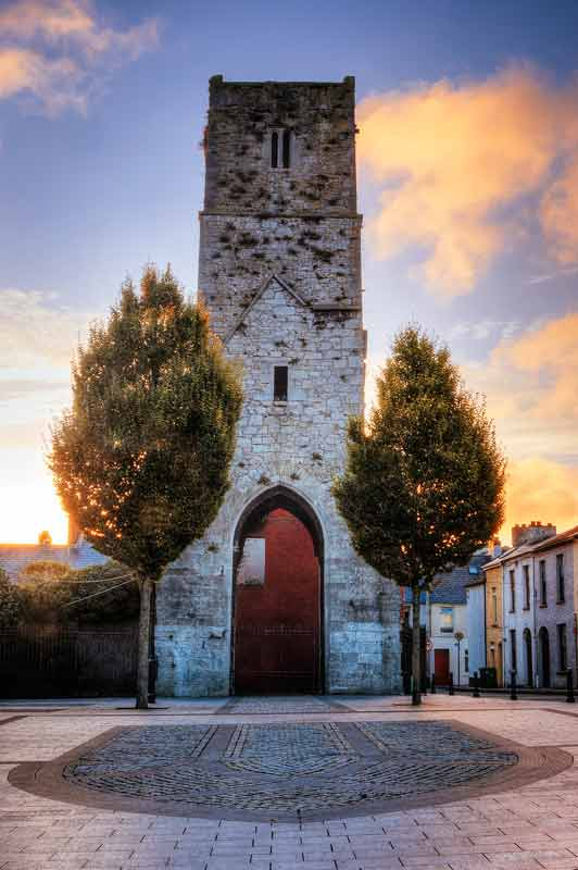 Red Abbey Tower, Cork City, Ireland